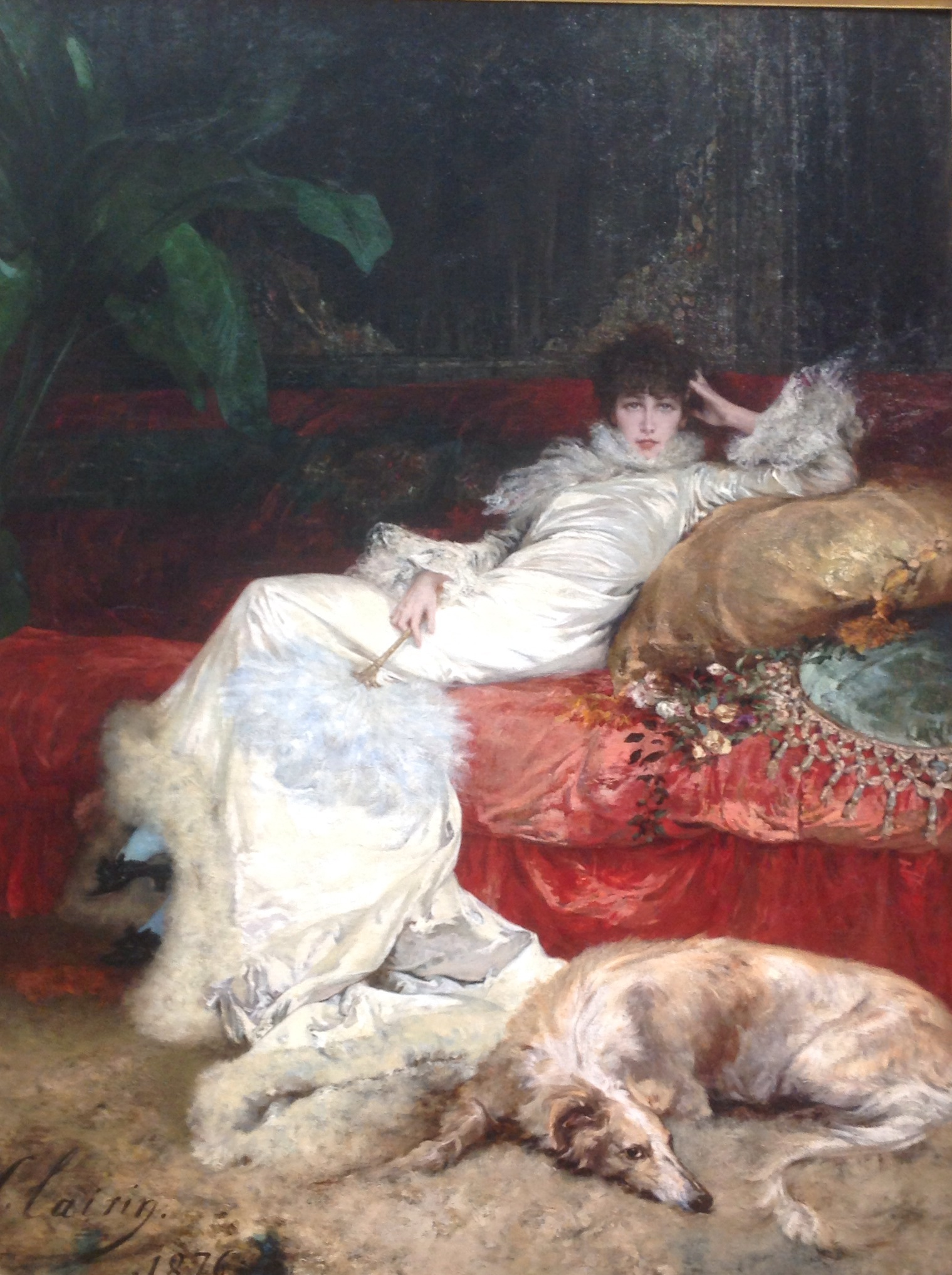 Portrait of Sarah Bernhardt. Displayed in Salon of 1876, now in the Petit Palais, Paris.